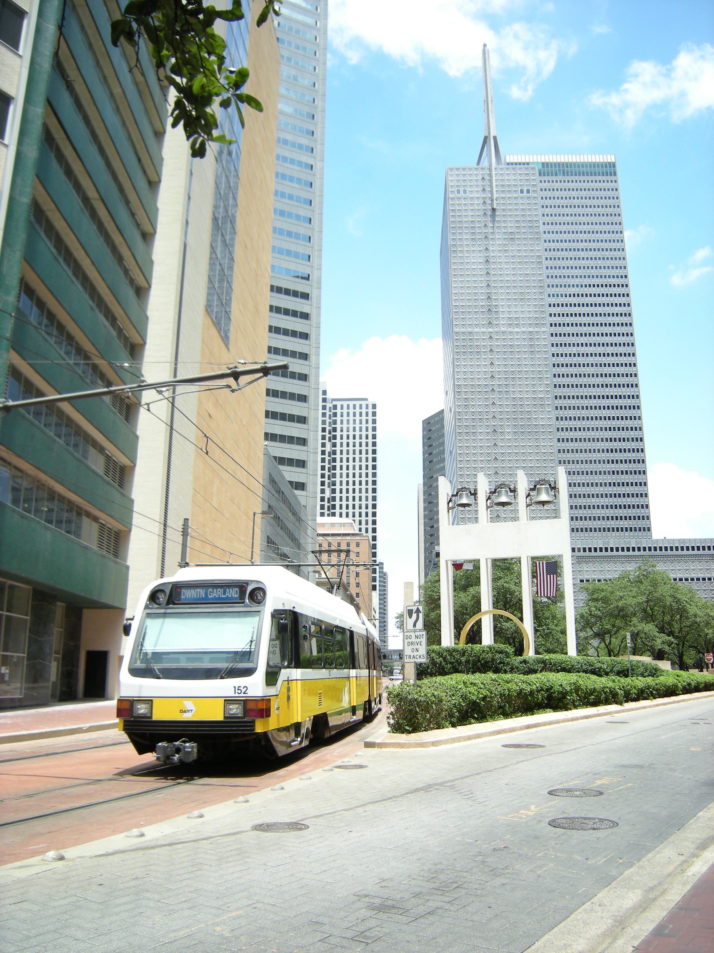 Light rail train passing Thanks-giving Square, downtown Dallas, Texas.